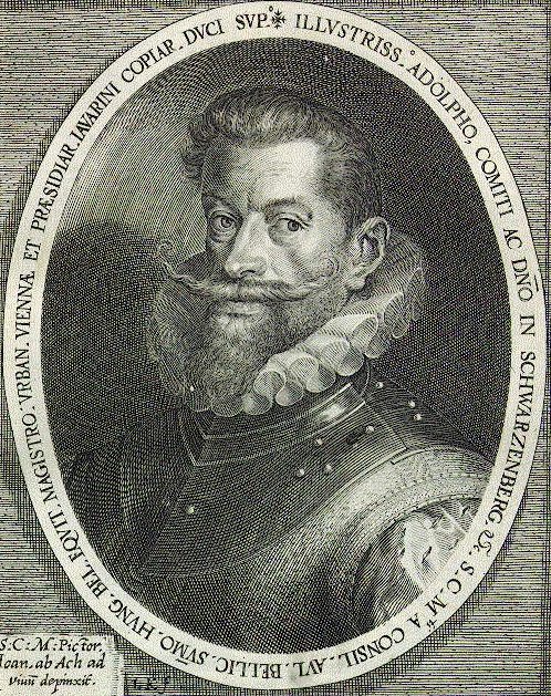 Adolph von Schwarzenberg (* 1551; † 1600), by Dominicus Custos